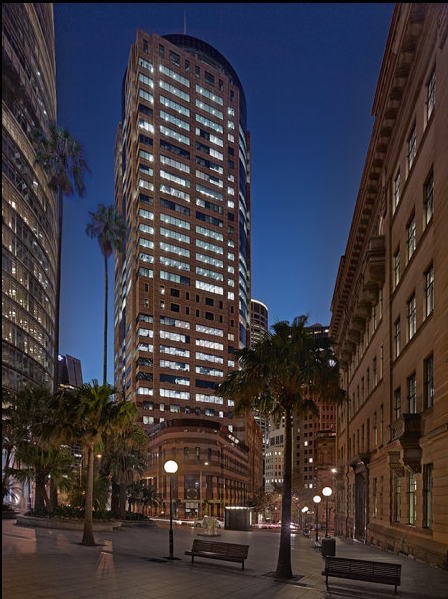 Photo of 1 O'Connell St, Sydney CBD